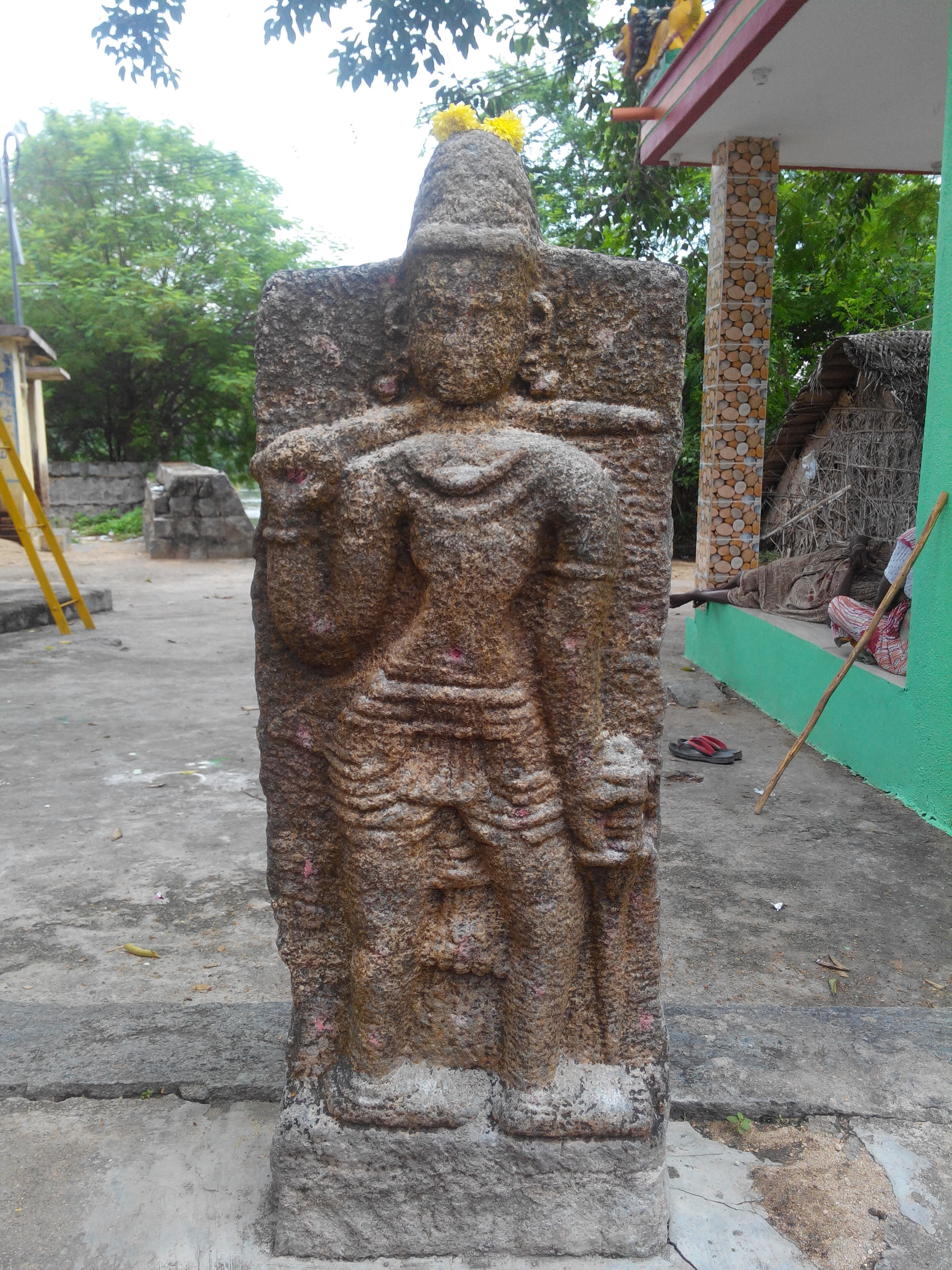 பெண்ணேஸ்வர மடம் நடுகல் 3